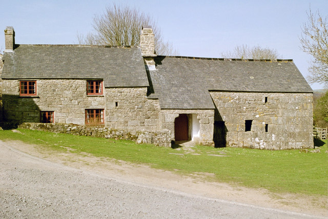 Sanders, Lettaford. This Dartmoor longhouse is "one of the best surviving examples anywhere on the moor" (Pevsner). Shippon on right with fine masonry, house to left. Seen from south.